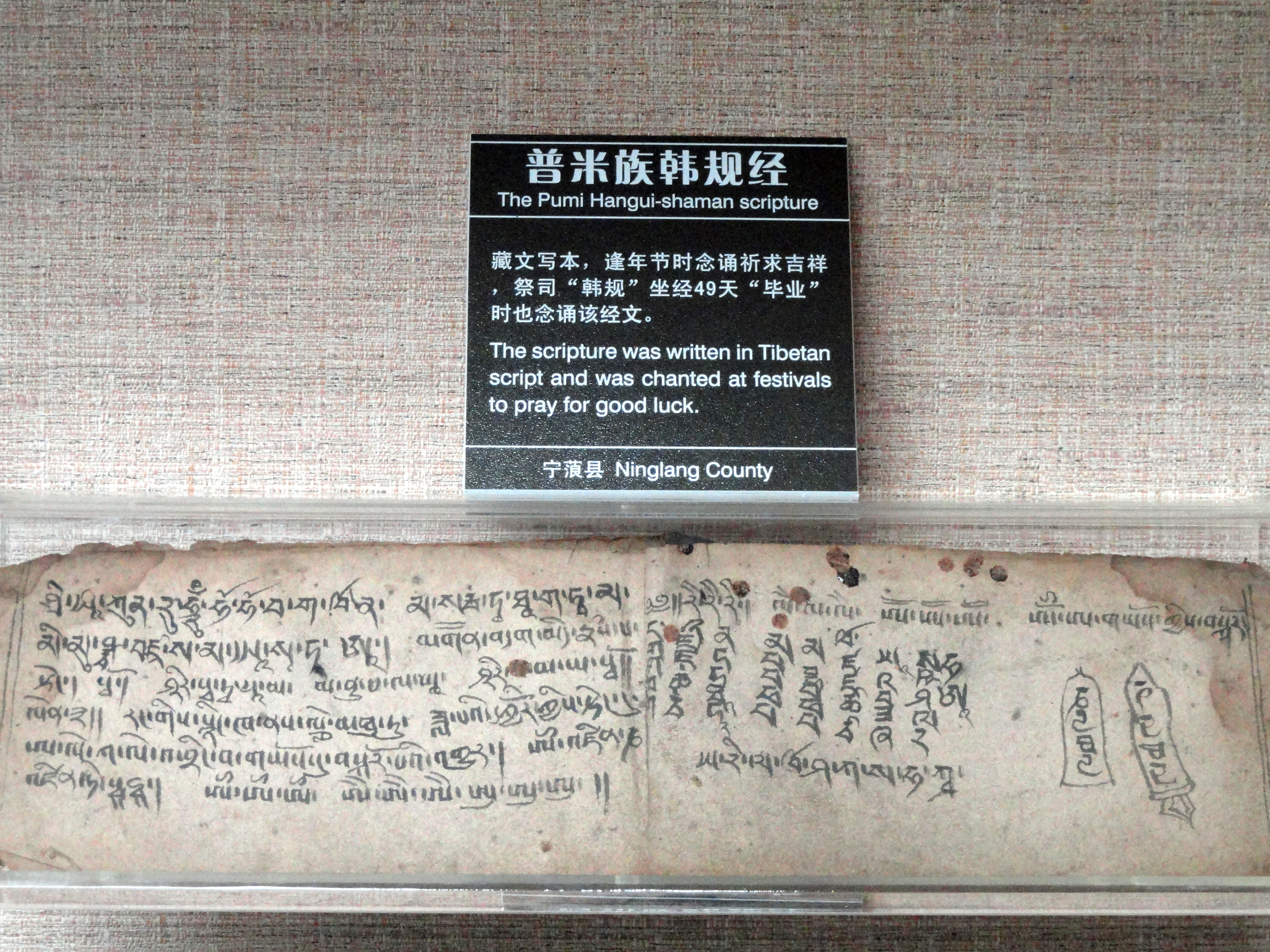 Pumi document for hangui-shamans, written in the Tibetan script. Manuscripts / writing systems in the Yunnan Nationalities Museum, Kunming, Yunnan, China.